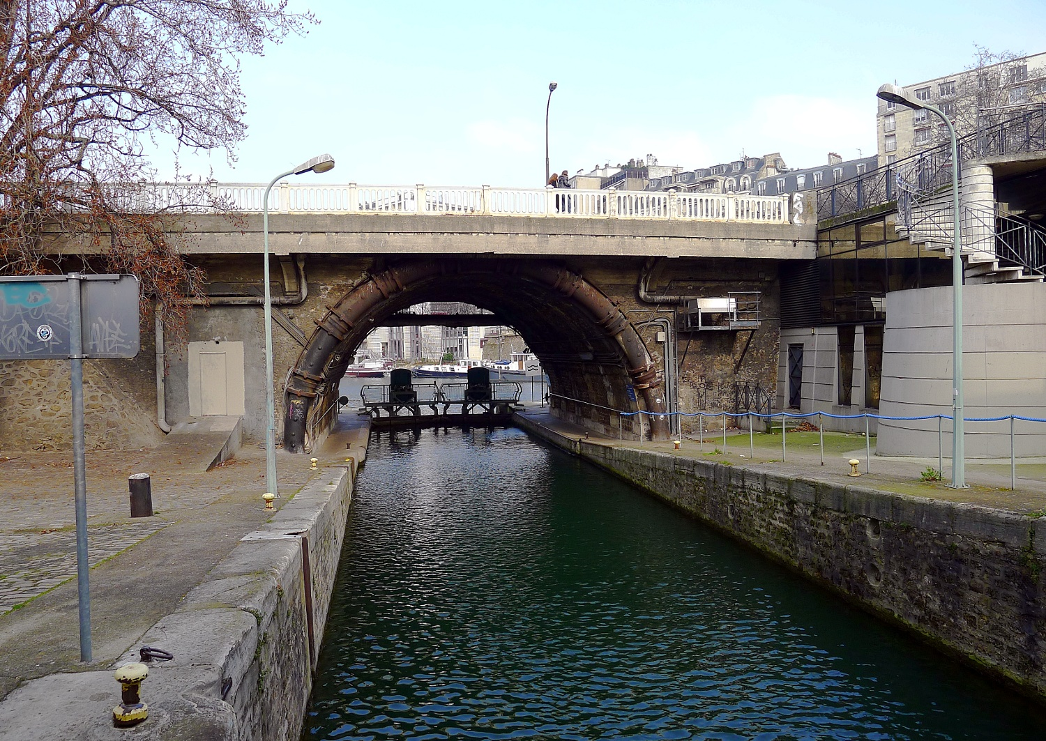 Morland bridge - Paris